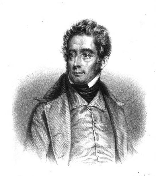 Portrait of Percy Bolingbroke St John (1821–1889), English journalist.